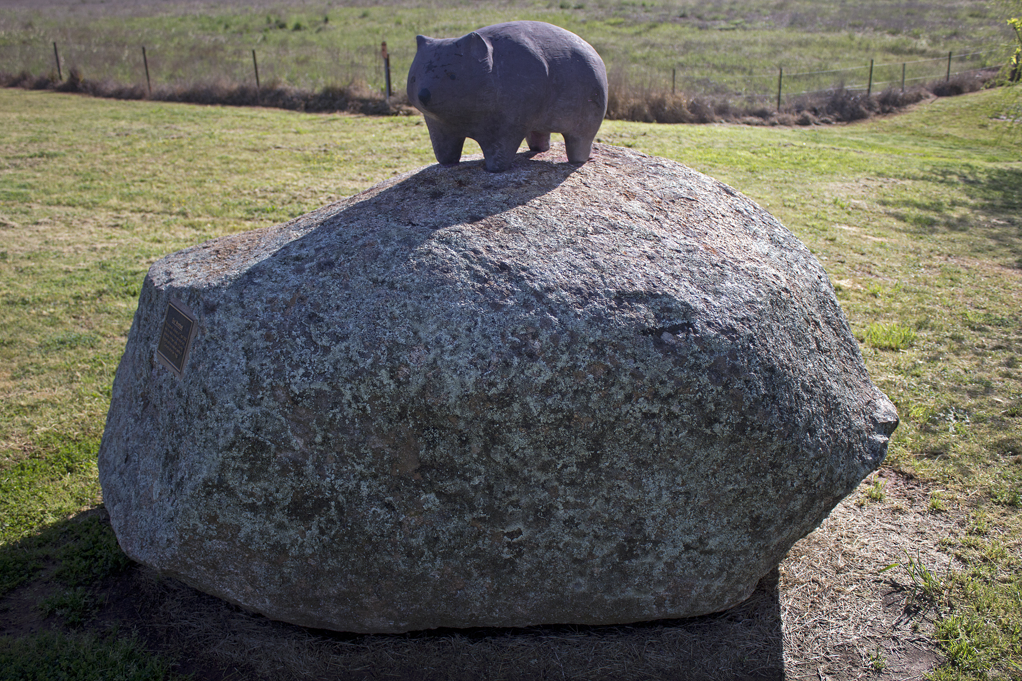 Wombat sculpture in the village of Wombat, New South Wales.